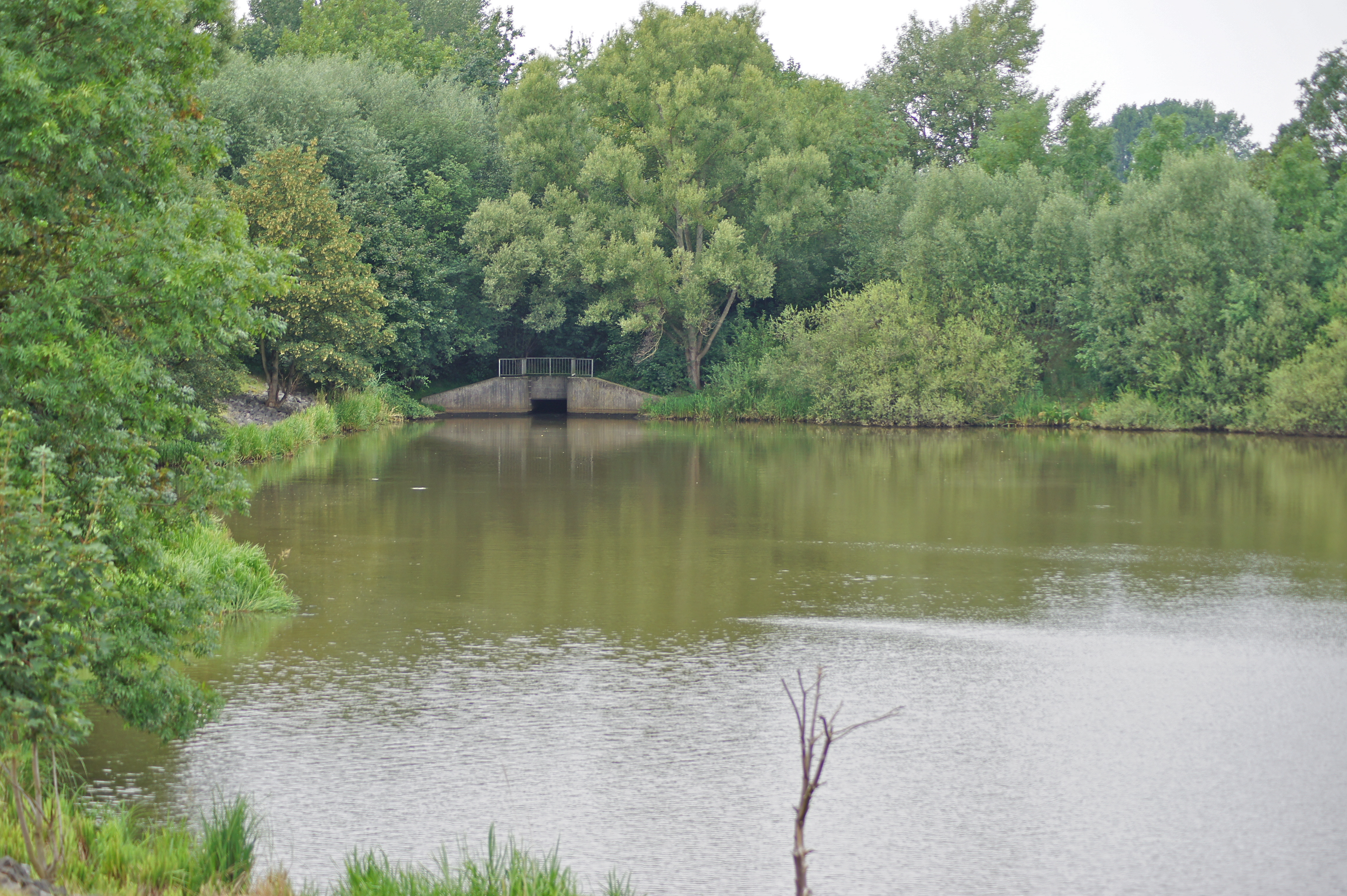 Hamburg (Wilhelmsburg), Germany: Discharge sluse of the Südlicher Wilhelmsburger Wettern in the Finkenrieker Mahlbusen